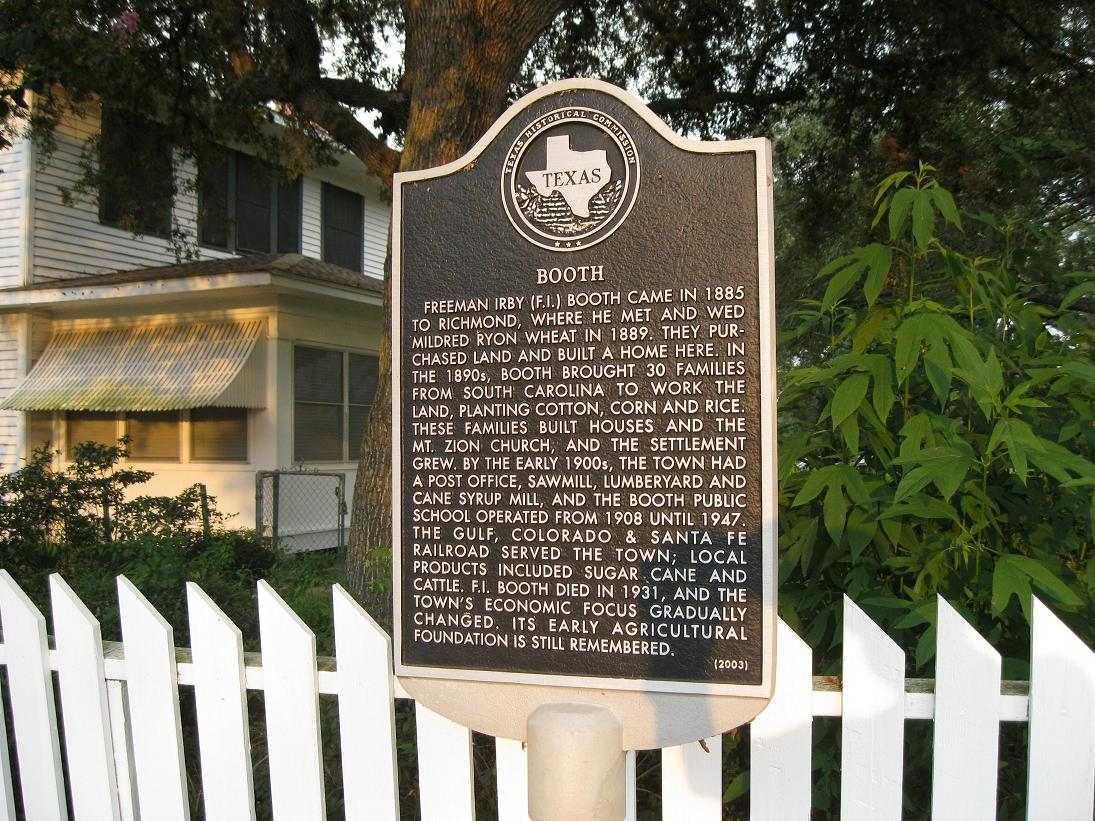 The photo shows the Booth, Texas historical marker.